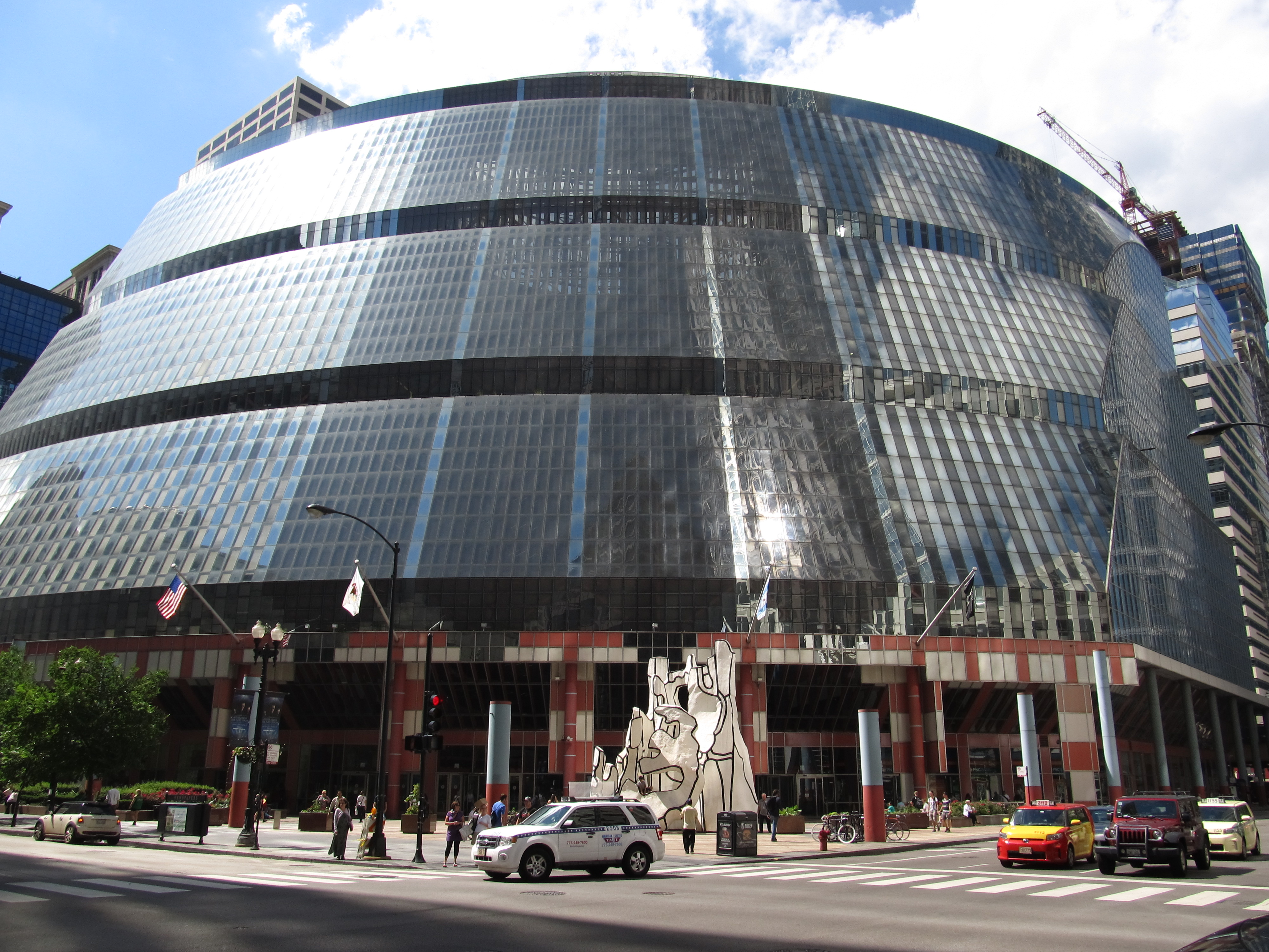 The James R. Thompson Center (JRTC) is located at 100 W. Randolph Street in the Loop, Chicago, Illinois and houses offices of the State of Illinois. The building opened in May 1985 as the State of Illinois Center. It was renamed in 1993 to honor former Illinois Governor James R. Thompson. The property takes up the entire block bound by Randolph, Lake, Clark and LaSalle Streets, one of the 35 full-size city blocks within Chicago's Loop. In front of the Thompson Center is a sculpture, Monument With Standing Beast, by Jean Dubuffet. The JRTC is sometimes referred to as the State Building. The JRTC was designed by Murphy/Helmut Jahn and opened to mixed reviews by critics, ranging from "outrageous" to "wonderful". The color of the street-level panels was compared to tomato soup. The 17-story, all-glass exterior does not reflect the building's function, and instead conveys an image of pure postmodernism; the effect is striking, especially from the Daley Center.[citation needed] Visitors to the JRTC's interior can see all 17 floors layered partway around the building's immense skylit atrium. The open-plan offices on each floor are supposed to carry the message of "an open government in action."